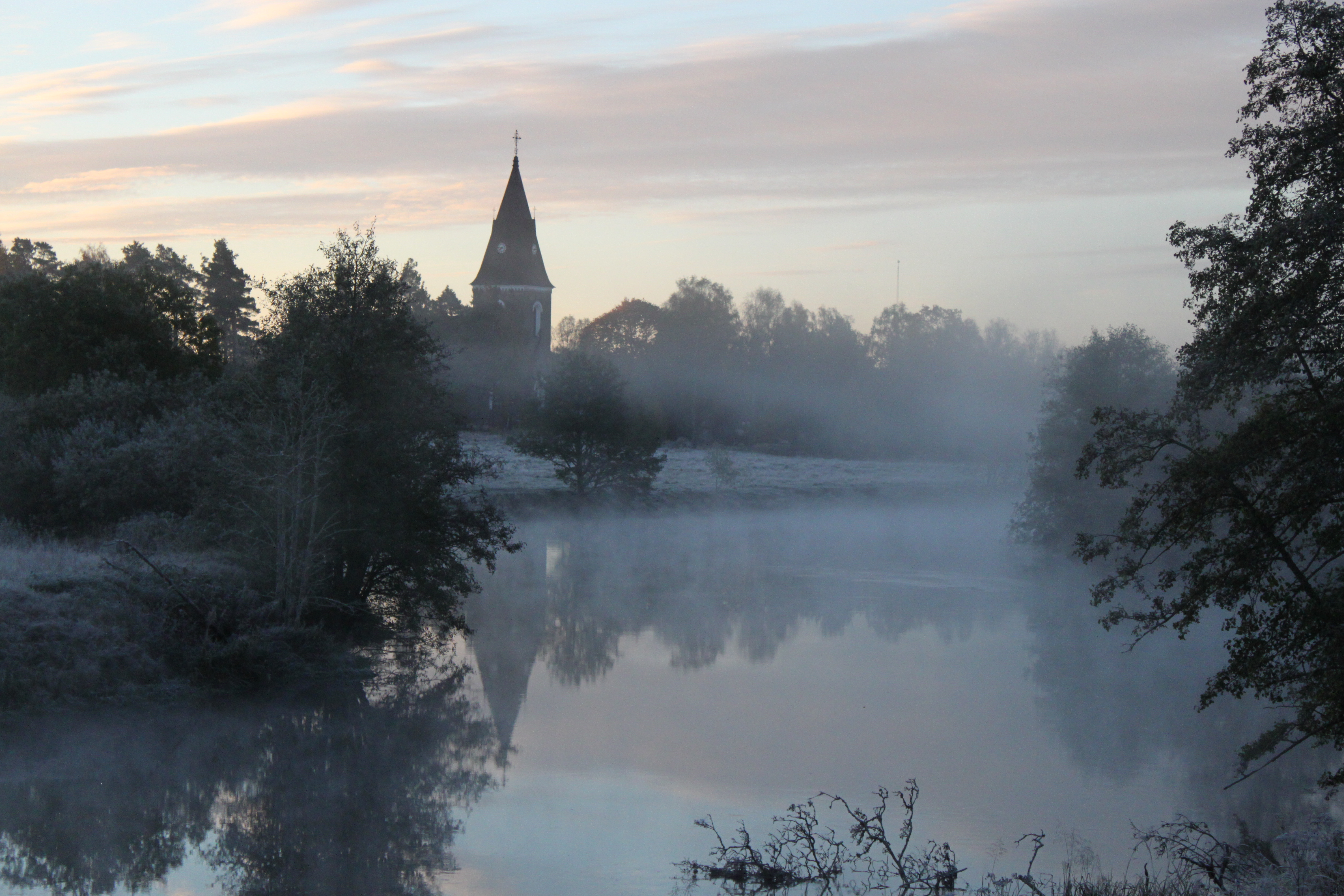 Hamneda kyrka med Lagan i förgrunden